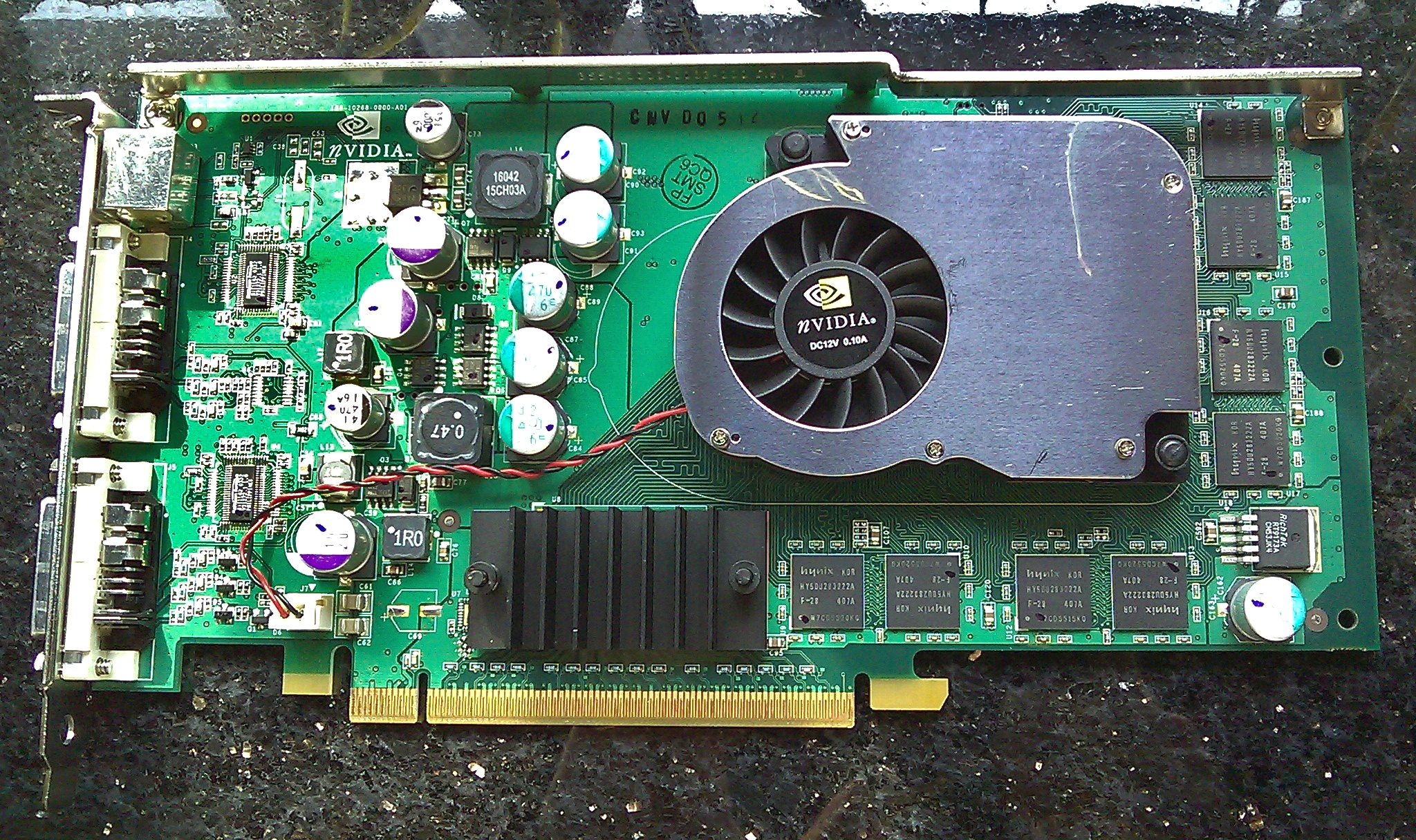 NVIDIA Quadro FX 1300 Graphic card